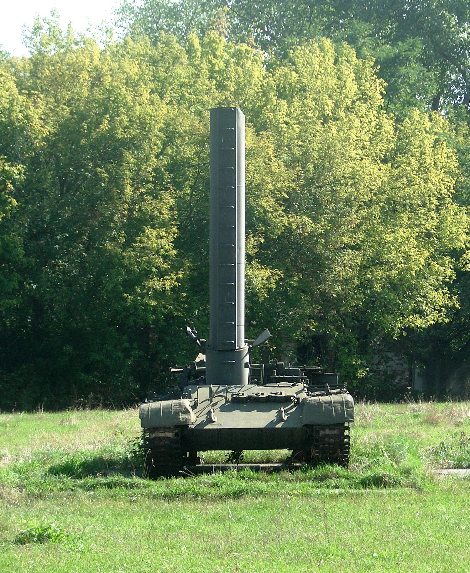 This BTS-4 was used in the operation to clean up some of the contamination from the Chernobyl accident; they're still contaminated with radioactive particles, but not to the extent that they're dangerous to approach. Touching them would be inadvisable, though, as there are still dust particles on them, especially in areas that have been sheltered from the rain.